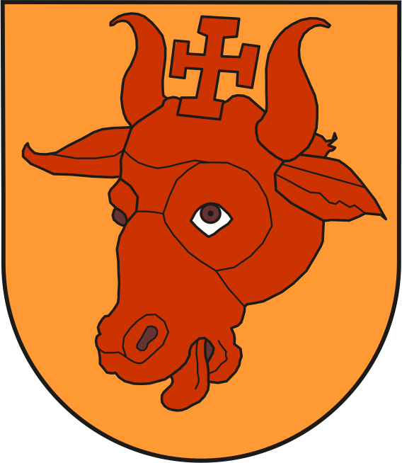 Coats of arms of the Terter dynasty Based on: [1]